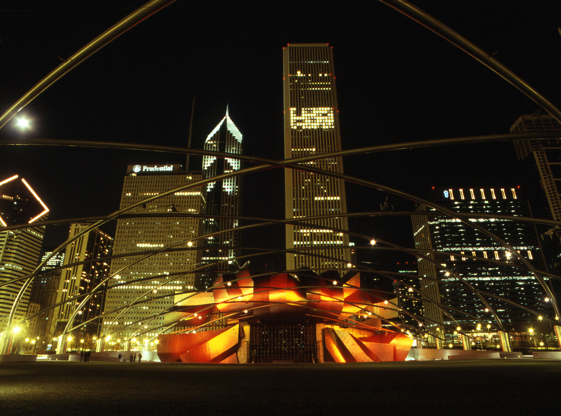 Pritzker Pavilion looking north at night. This was scanned from a 120mm color film positive.